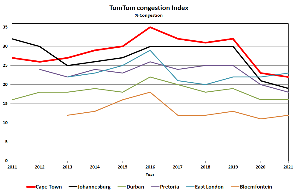 Using TomTom congestion index to graph South Africa's most congested cities.